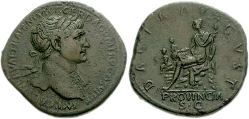 TRAJAN. 98-117 AD. Æ Sestertius (33mm, 22.41 g). Struck circa 112-115 AD. Laureate bust right, slight drapery on left shoulder DACIA AVGVST, PROVINCIA/S C in two lines in exergue, Dacia seated left on rock, holding aquila; two children before, one holding grain, the other, grapes. RIC II 621; BMCRE 960; Cohen 125 var. (aegis, no drapery).